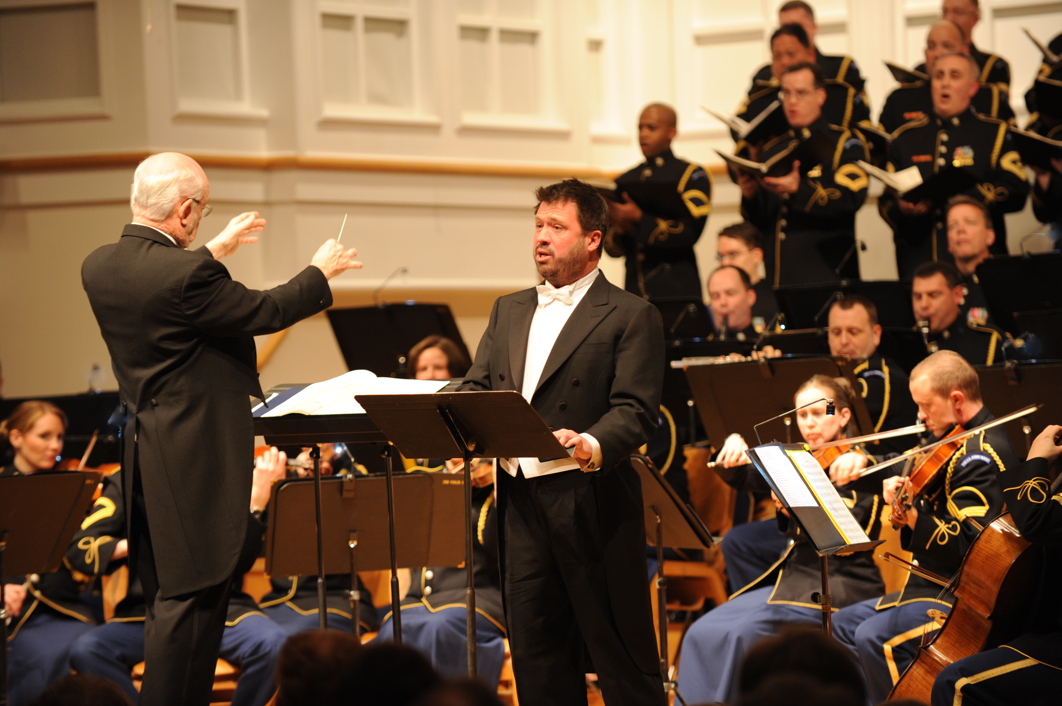 The U. S. Army Chorus and Orchestra with Duain Wolfe, conductor, and David Daniels, countertenor. Photo credit: SSG Chris Branagan